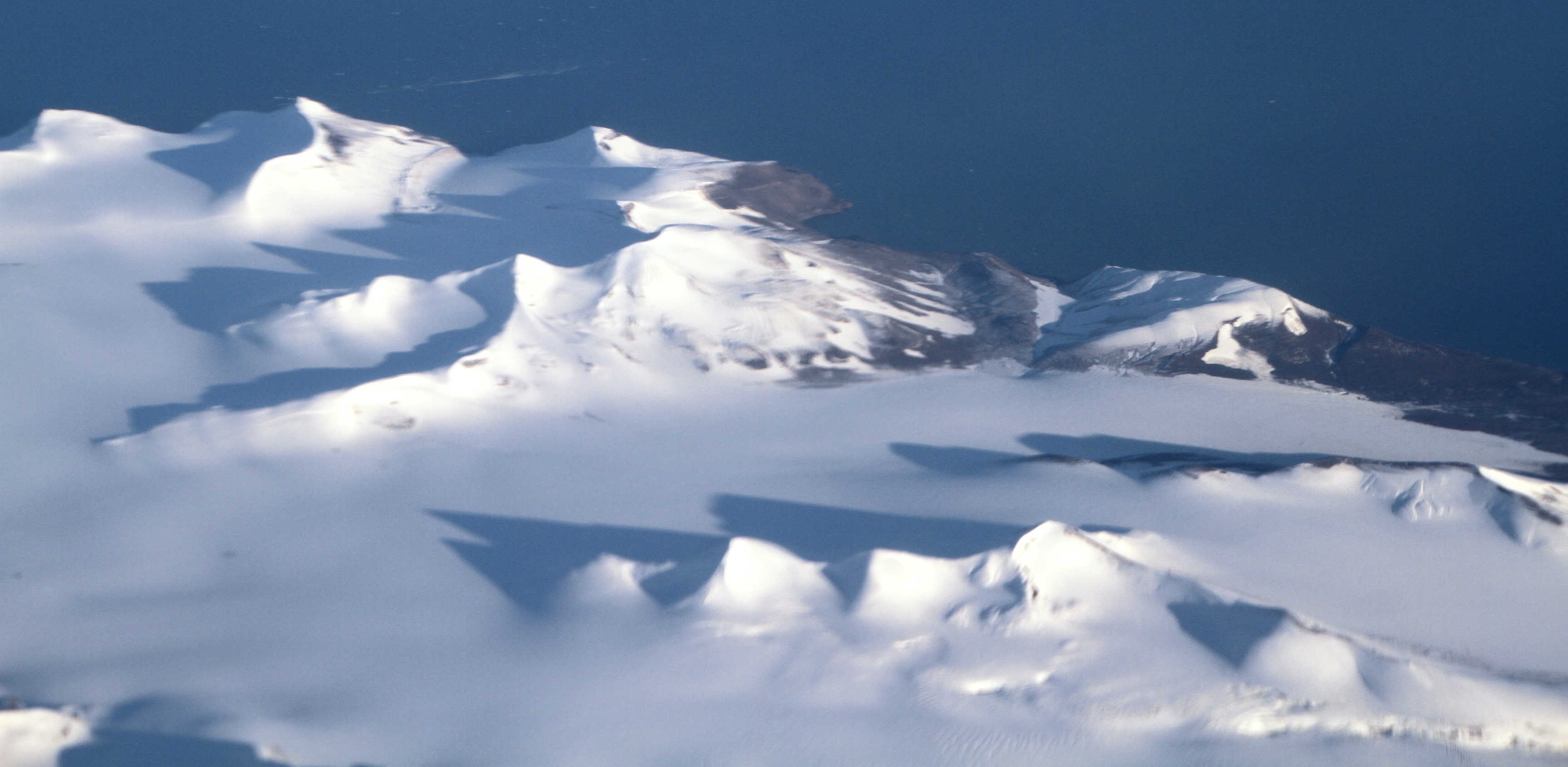 Aerial photo, from the west towards east, of the Sørkapp Land southernmost parts of Spitsbergen, Svalbard.